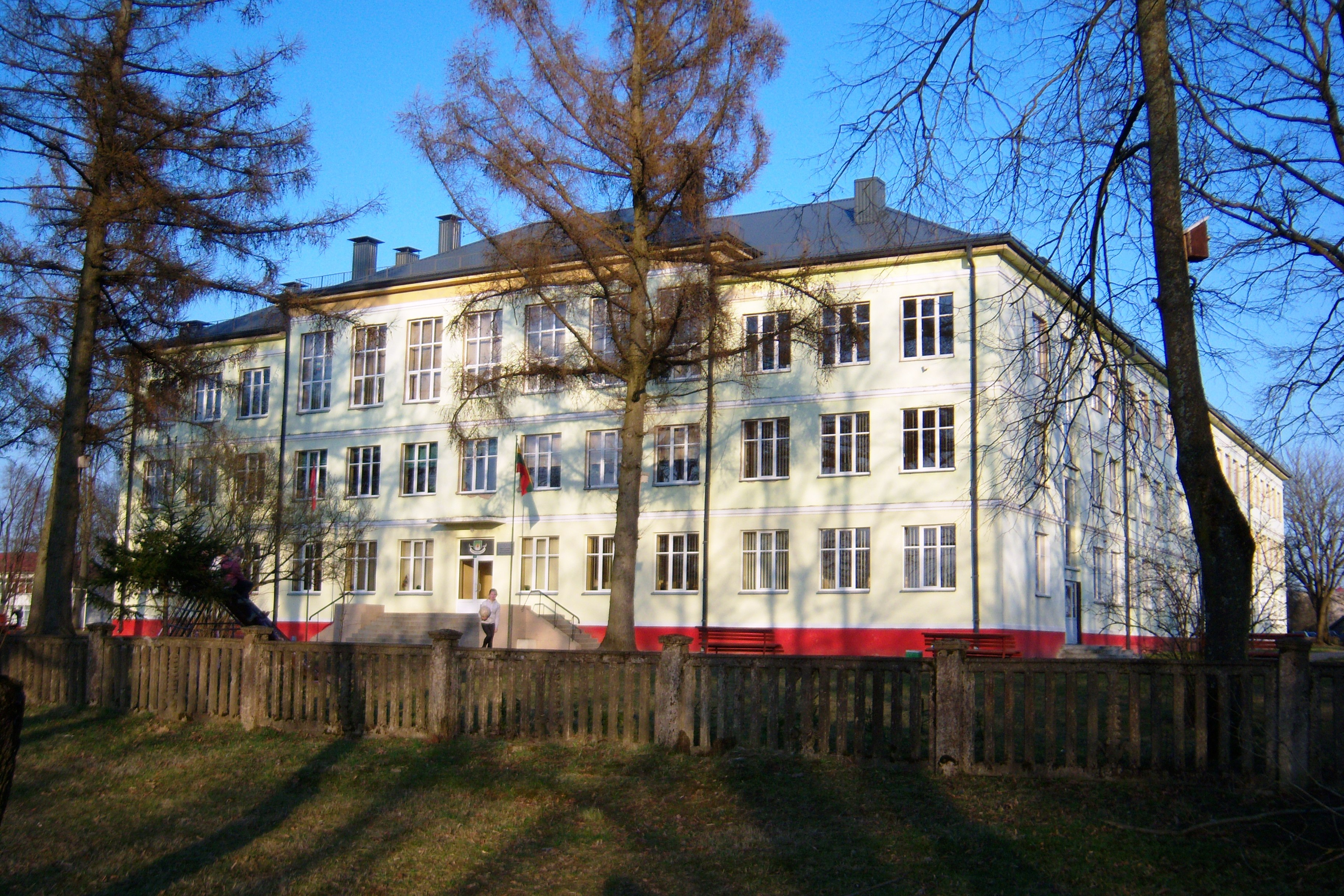 Gymnasium, Jieznas, Lithuania